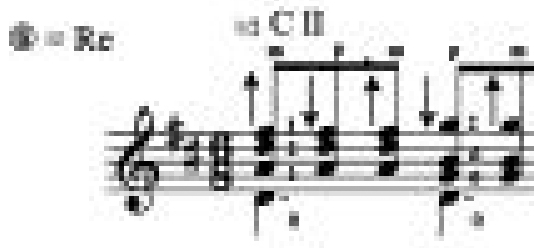 Incipit of a piece by Gaspar Sanz. Original, low quality scansion with JPEG artifacts.